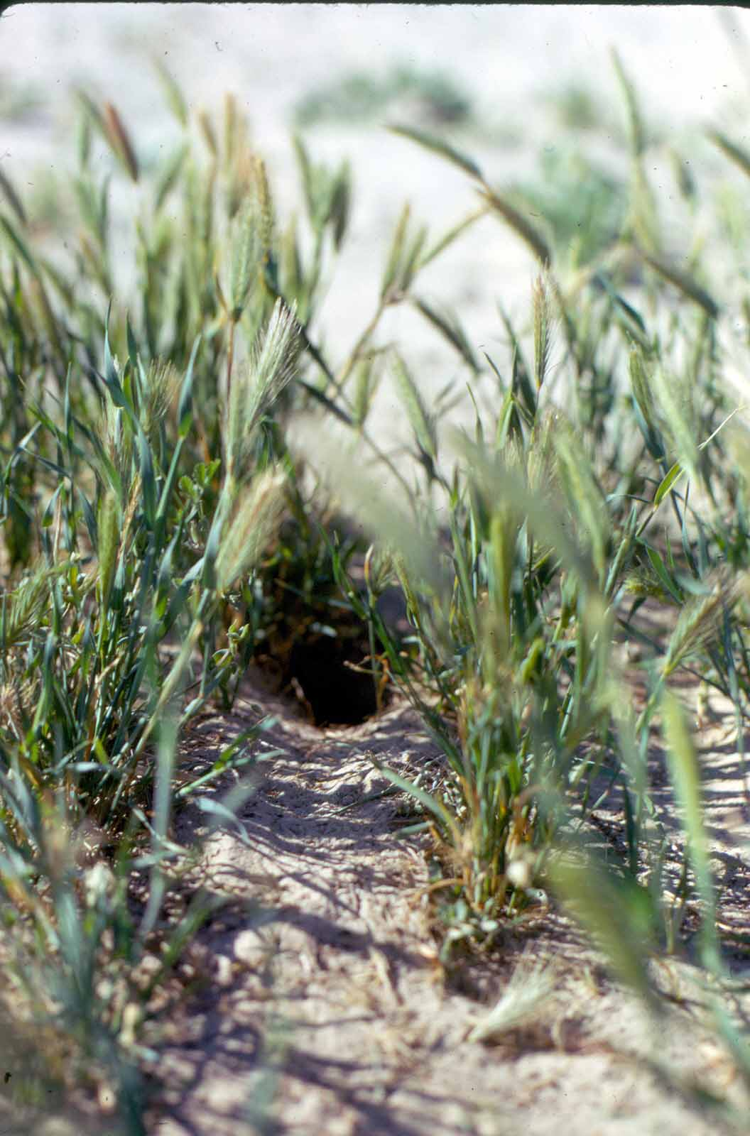 Fresno kangaroo rat (Dipodomys nitratoides) Burrow. CDFW file photo.